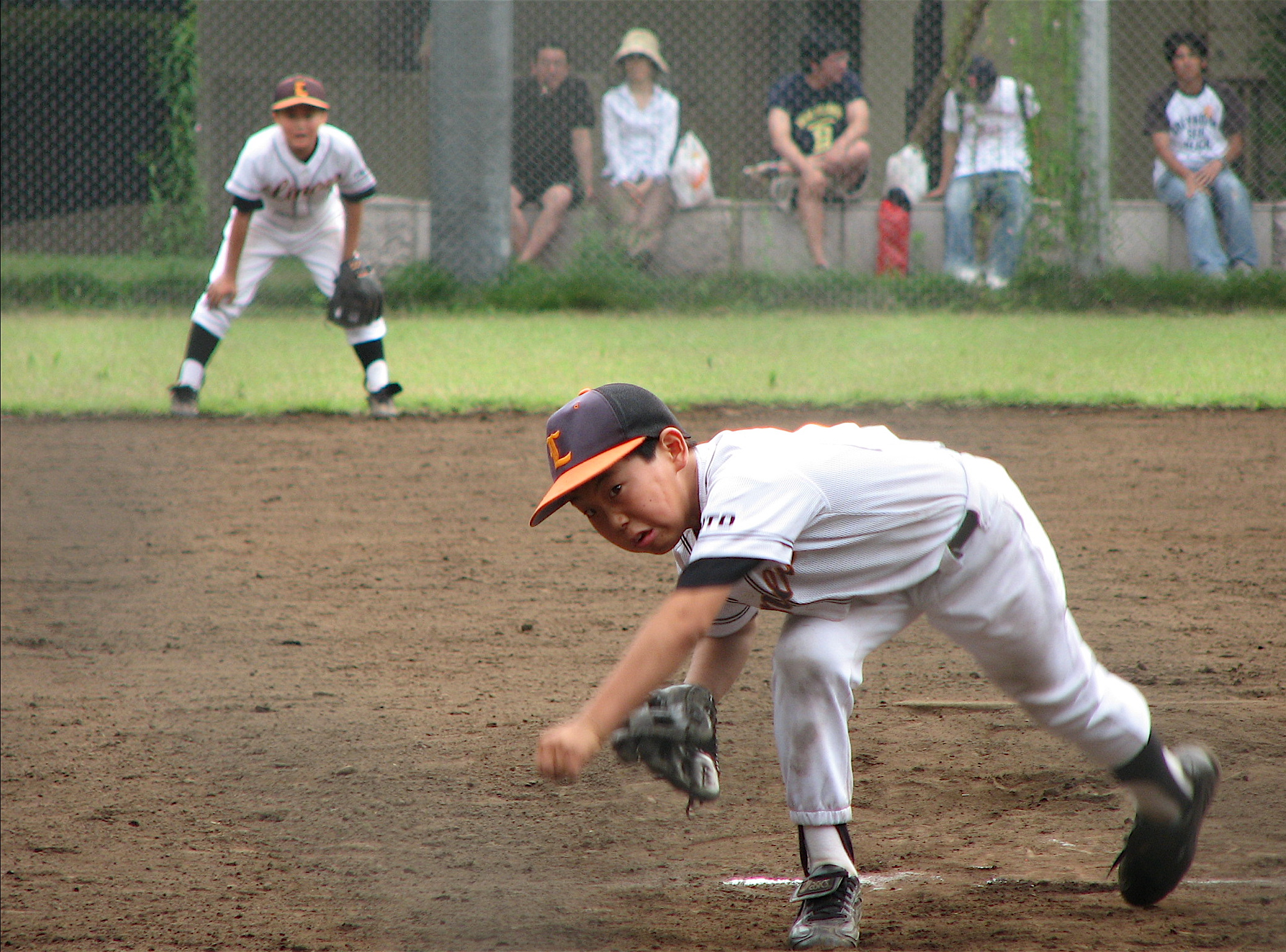 in a baseball league game